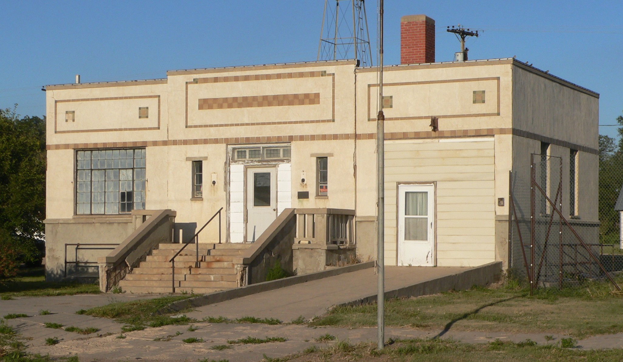 1937 city hall in Norcatur, Kansas; seen from the southwest.